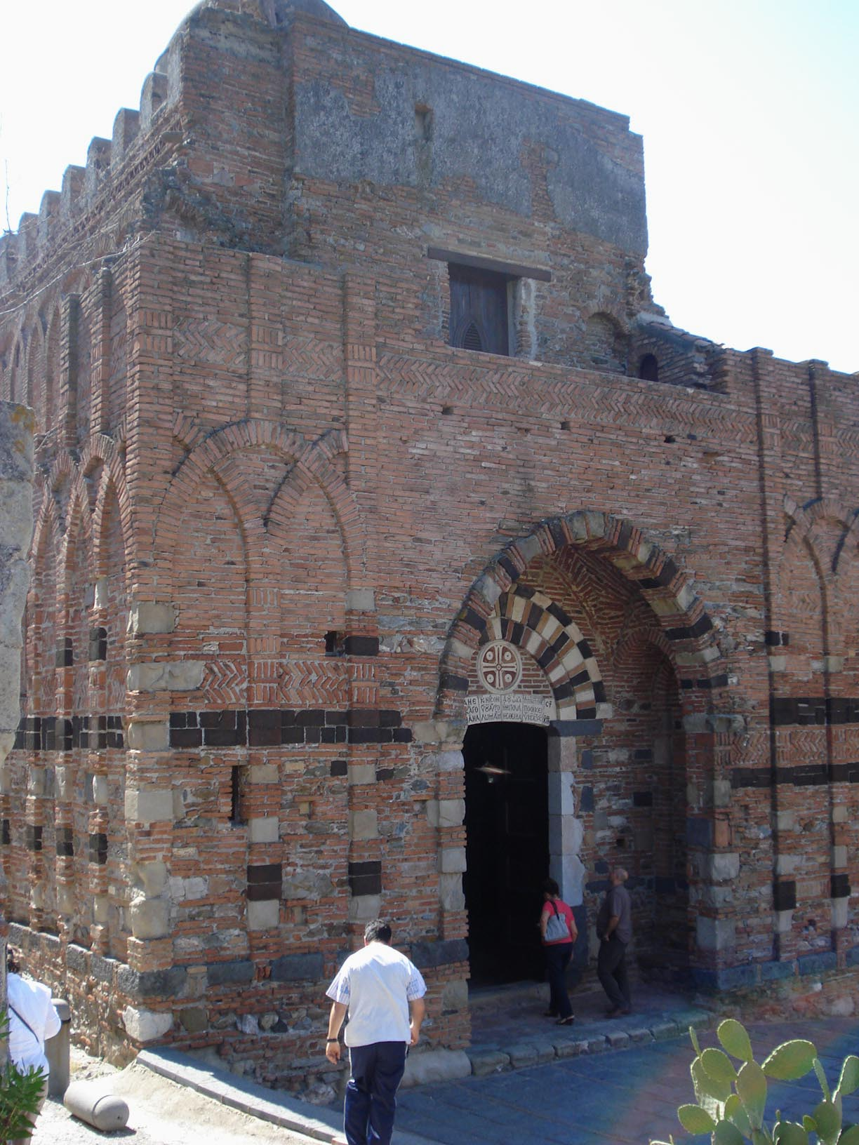 Western facade